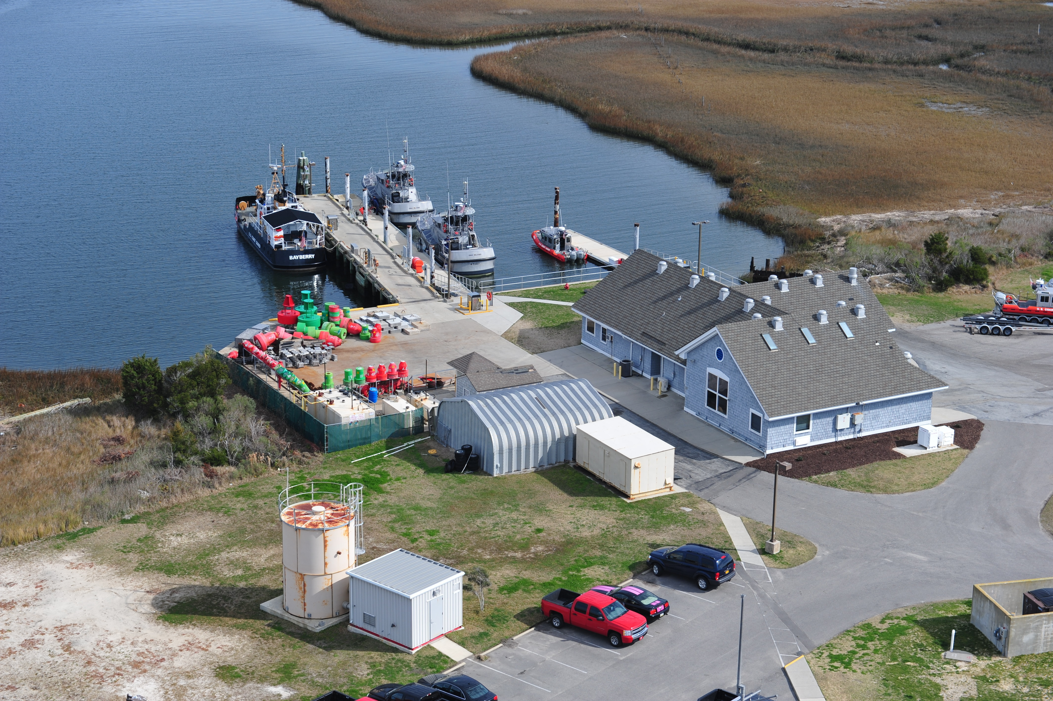 Aerial photo of Oak island Coast Guard Station Dock